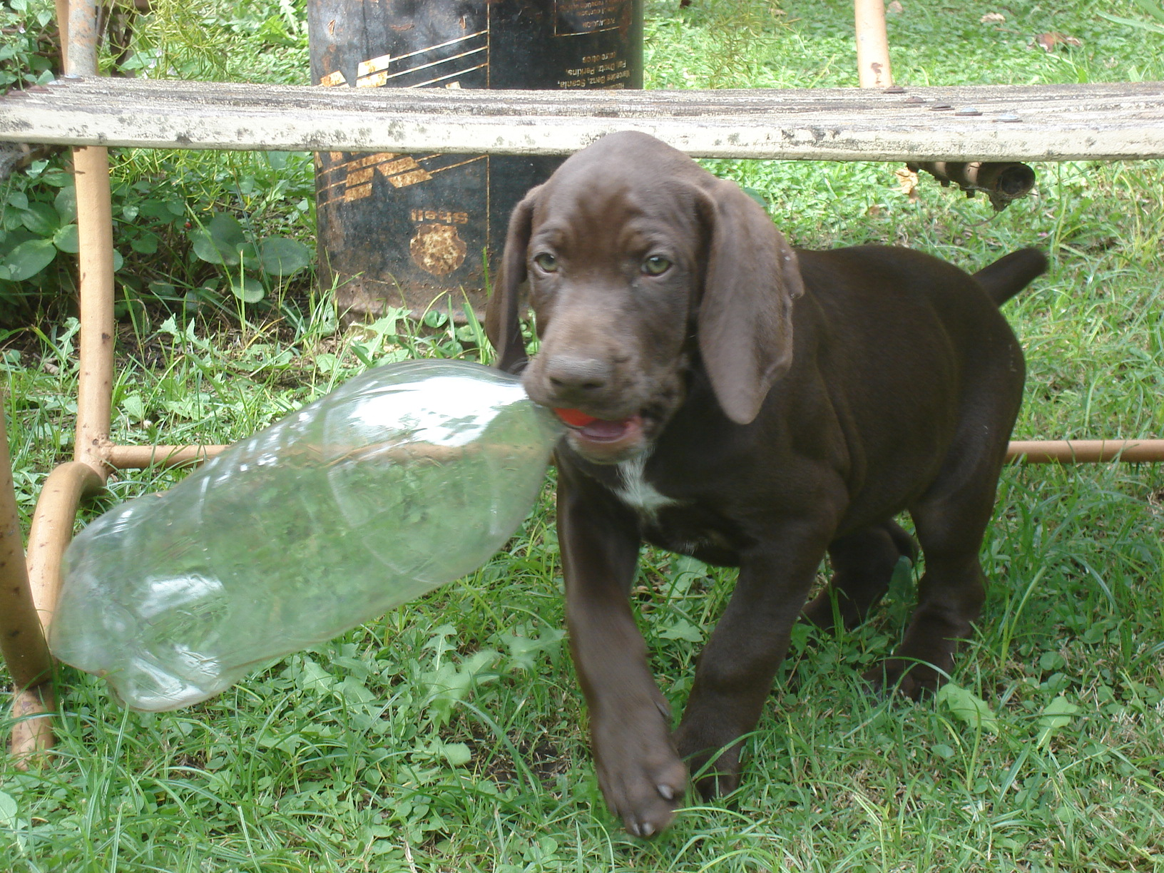 Cachorro de Pointer Braco Alemán de 50 dias jugando con una botella de plástico. 50 days old German Shorthaired Pointer playing with an empty plastic bottle.